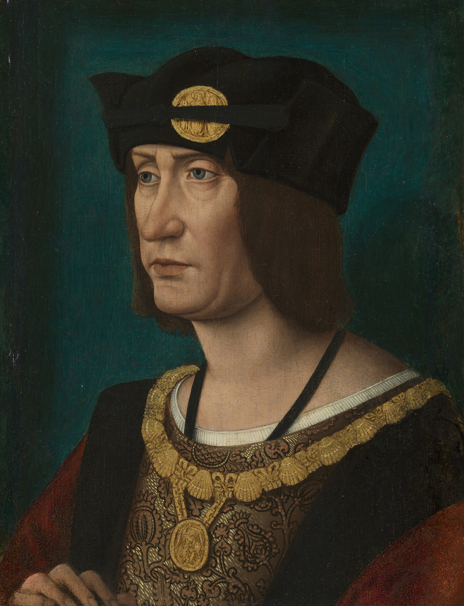 Portrait of Louis XII of France, painting in Windsor Castle